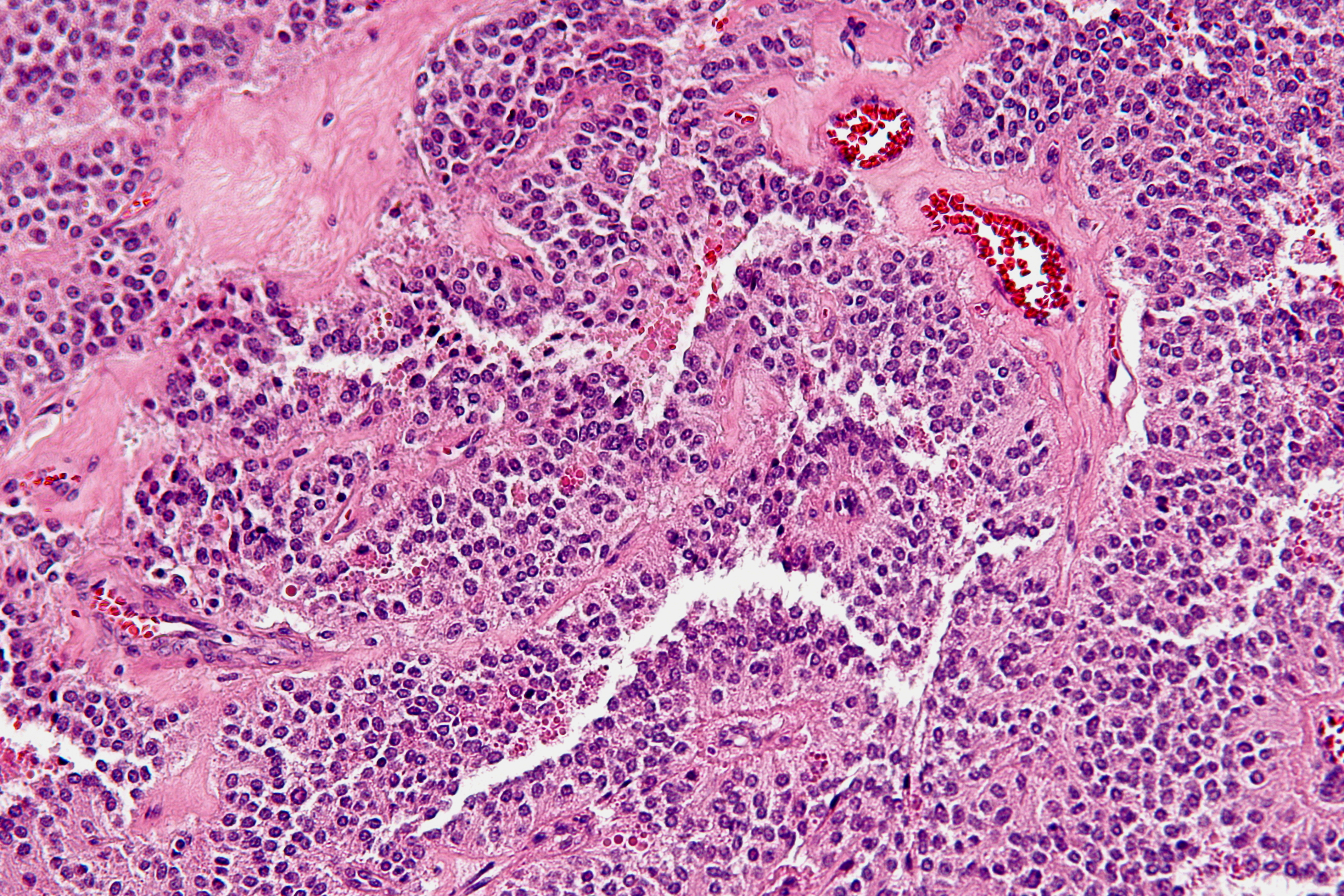 High magnification micrograph of a solid pseudopapillary tumour of the pancreas (also solid pseudopapillary tumor). H&E stain. Features: Solid sheets of cells, focally dyscohesive. Eosinophilic cytoplasm. Occasionally clear cytoplasm. Focal eosinophilic (intracytoplasmic) globules - key feature. Uniform nuclei with occasional nuclear grooves. +/-Necrosis - creating spaces/cavities. Related images Very low mag. Low mag. Intermed. mag. Very high mag.